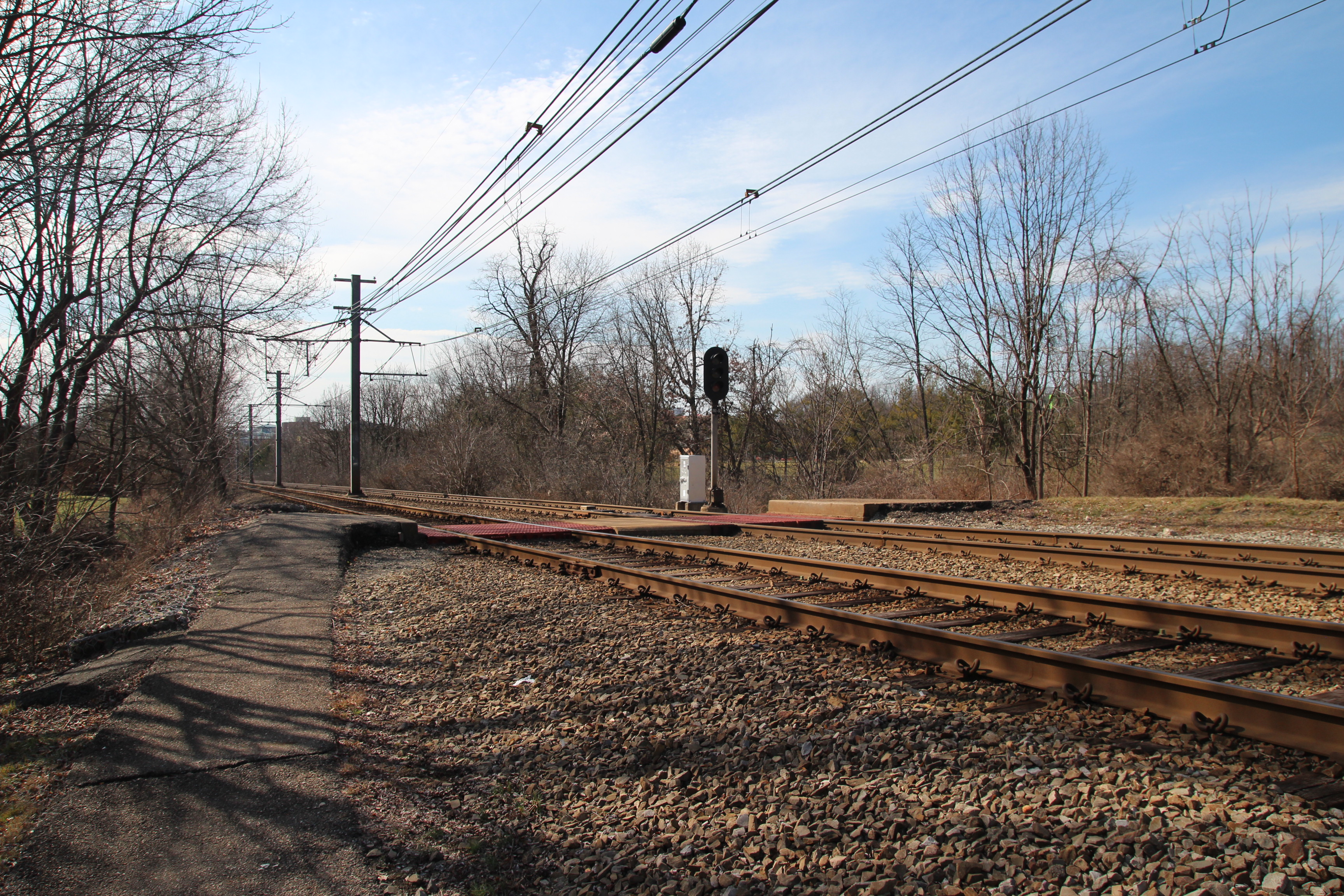 The former Santa Barbara station, closed in 2012, as seen in 2017. A pedestrian crossing remains at the location.